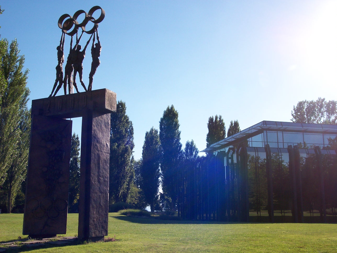 IOC Headquater